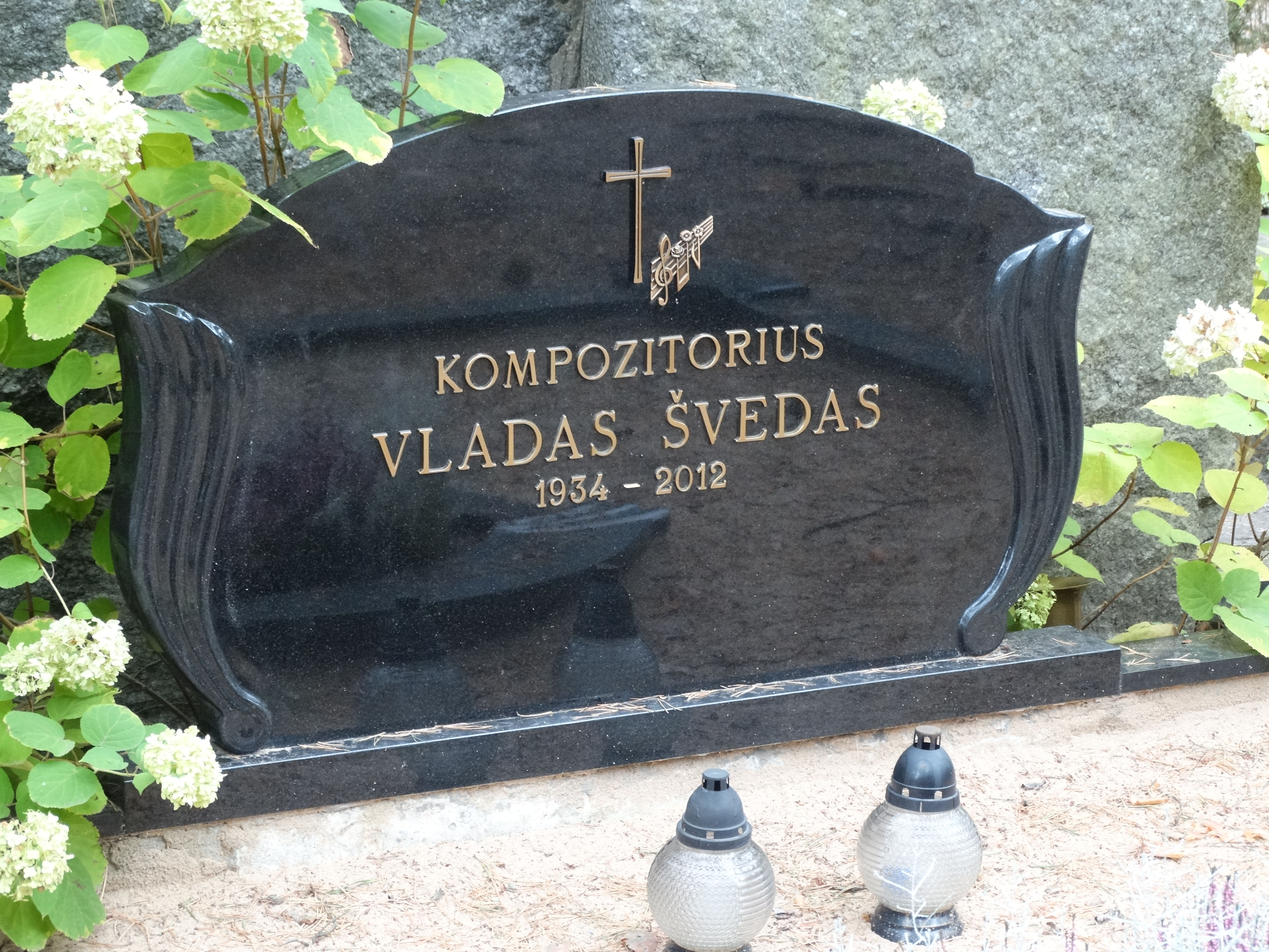 Tomb of Vladas Švedas, Petrašiūnai, Lithuania